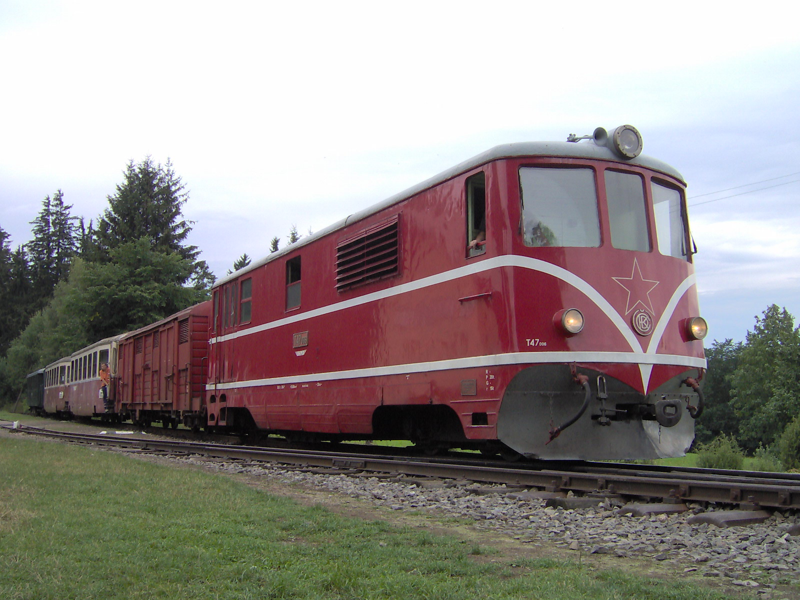 Narrow gauge diesel locomotive 705.906 (T 47.006) of JHMD, Albeř station, rail track Jindřichův Hradec - Nová Bystřice, Czech Republic